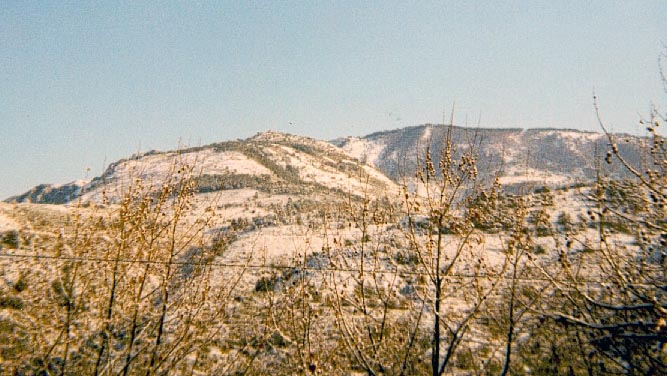 West view from mount Ferion (1,412 m high) and Castelar